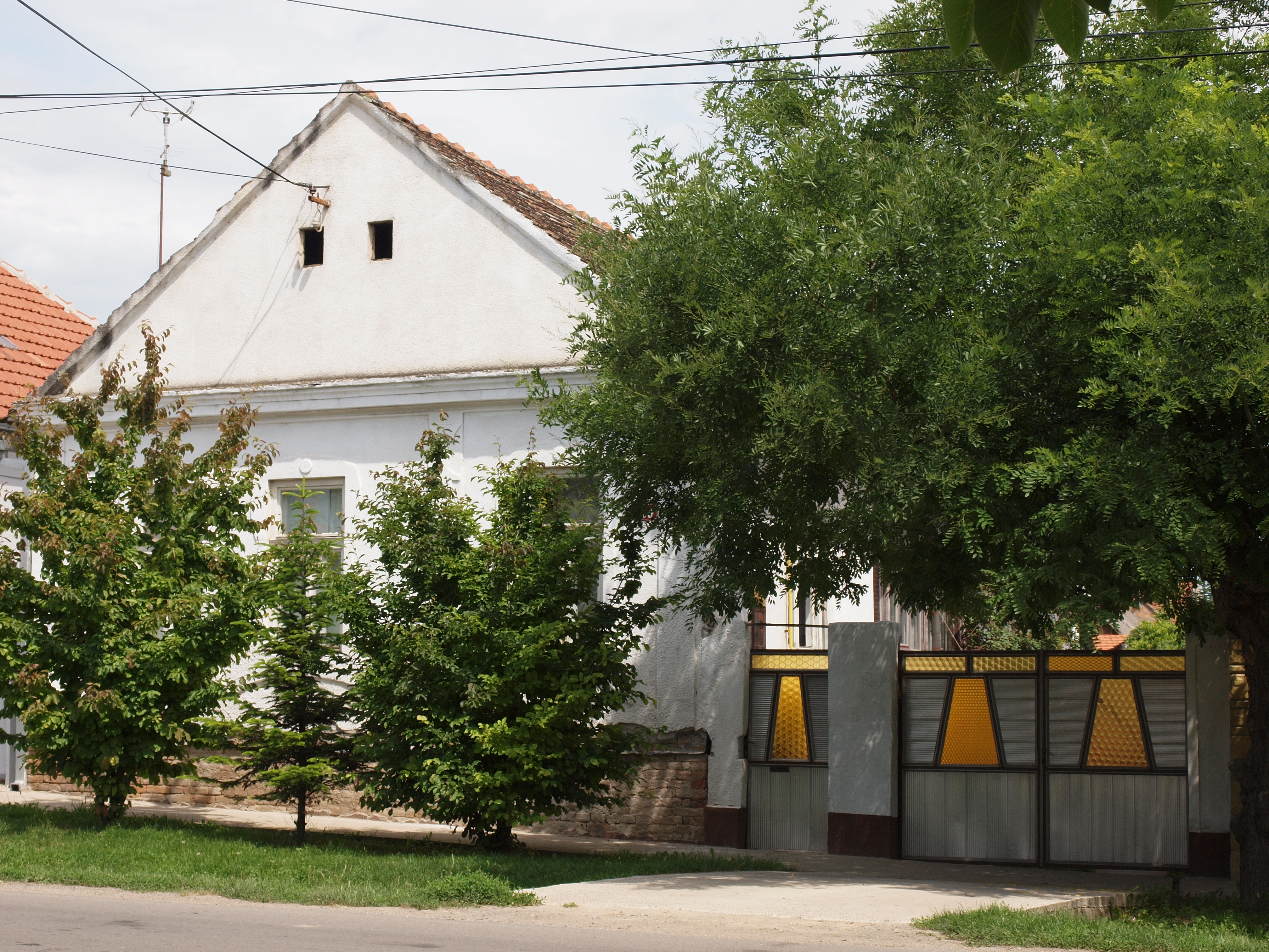 Typical german farm house, Ruma, Vojvodina Serbia